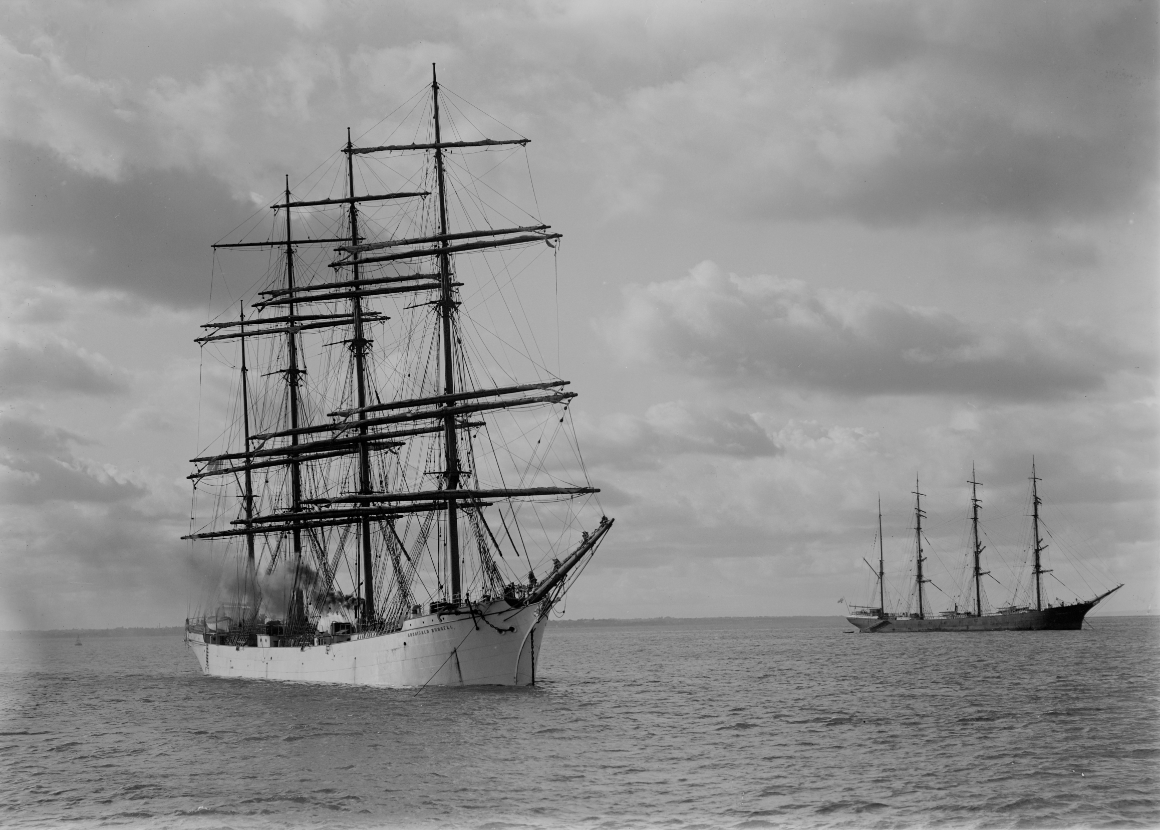 The four masted barque „Archibald Russel“ and the four masted barque „Ponape“.